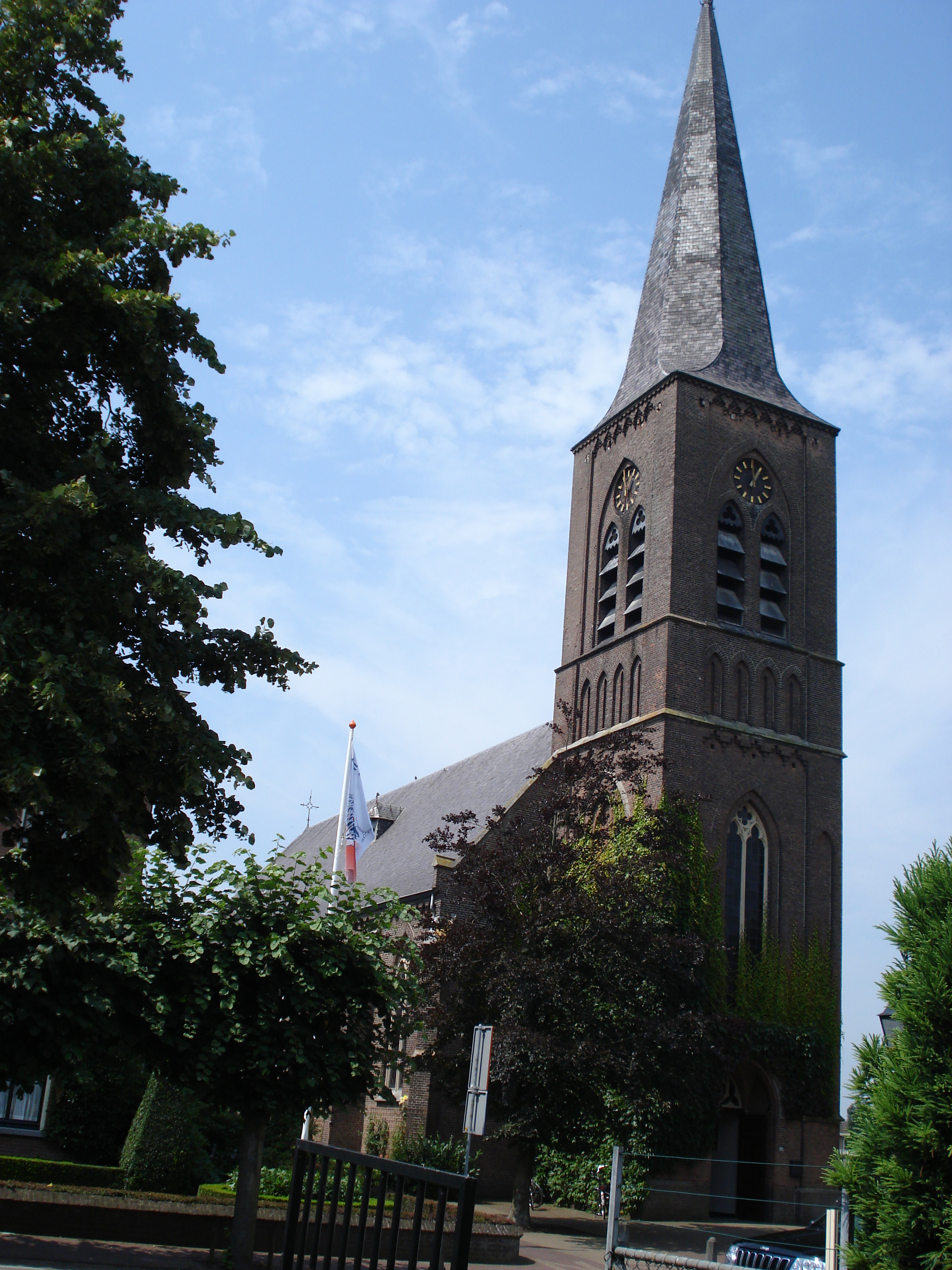 Zijtaart (N-Br, NL) church, edge view.